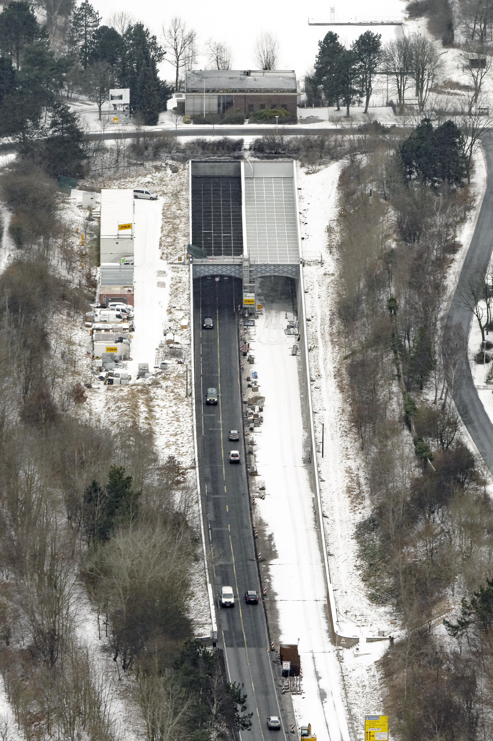 Fotoflugkurs Cuxhaven - leider bei trüben Wetter Fotoflugkurs Cuxhaven 2013 22. - 24. Februar 2013 vom Flugplatz Nordholz-Spieka Mit Unterstützung durch die Sportfluggruppe Nordholz/Cuxhaven e. V. The making of this document was supported by the Community-Budget of Wikimedia Germany. The making of this work was supported by Wikimedia Austria. For other files made with the support of Wikimedia Austria, please see the category Supported by Wikimedia Österreich.